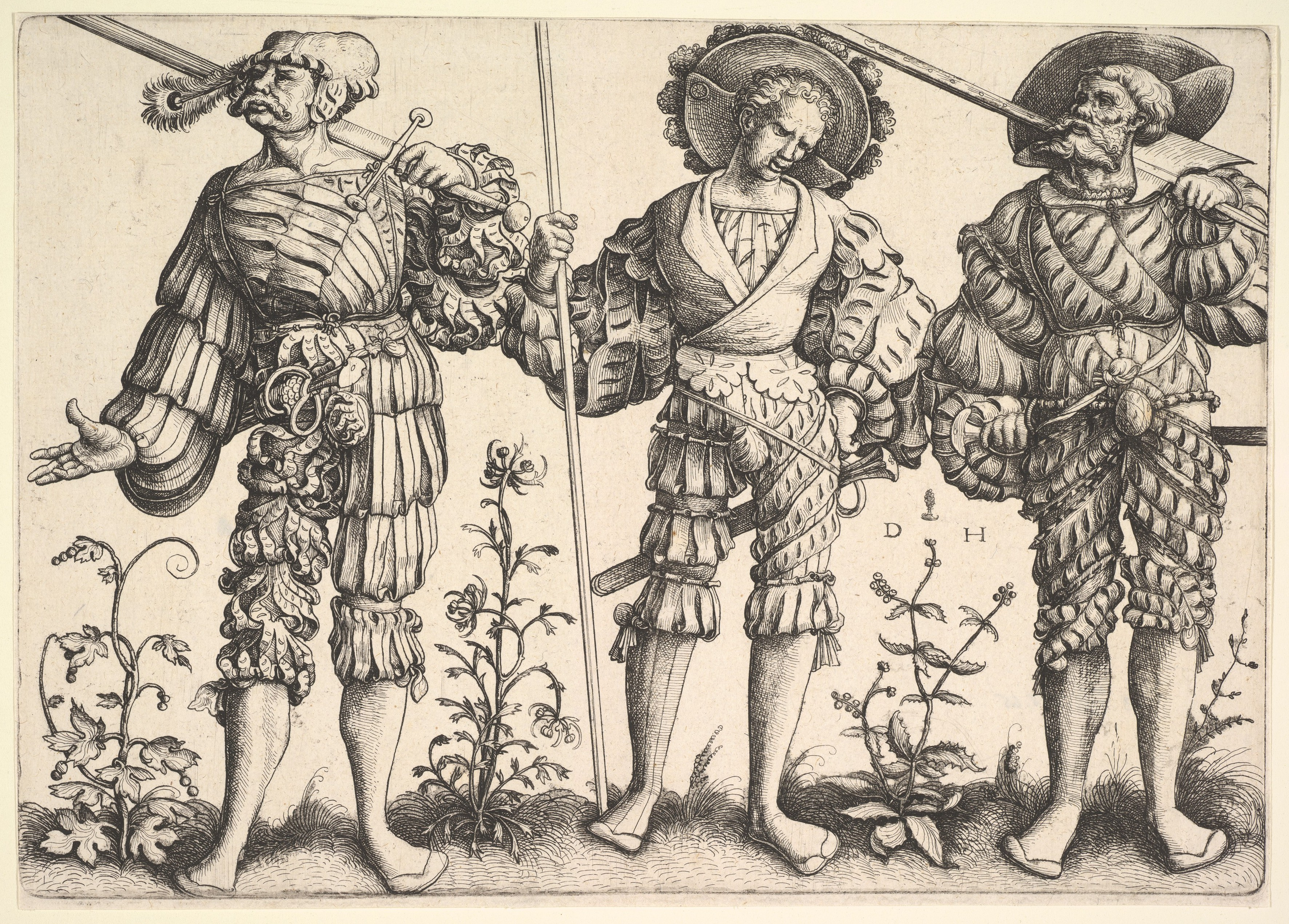 Print; Prints